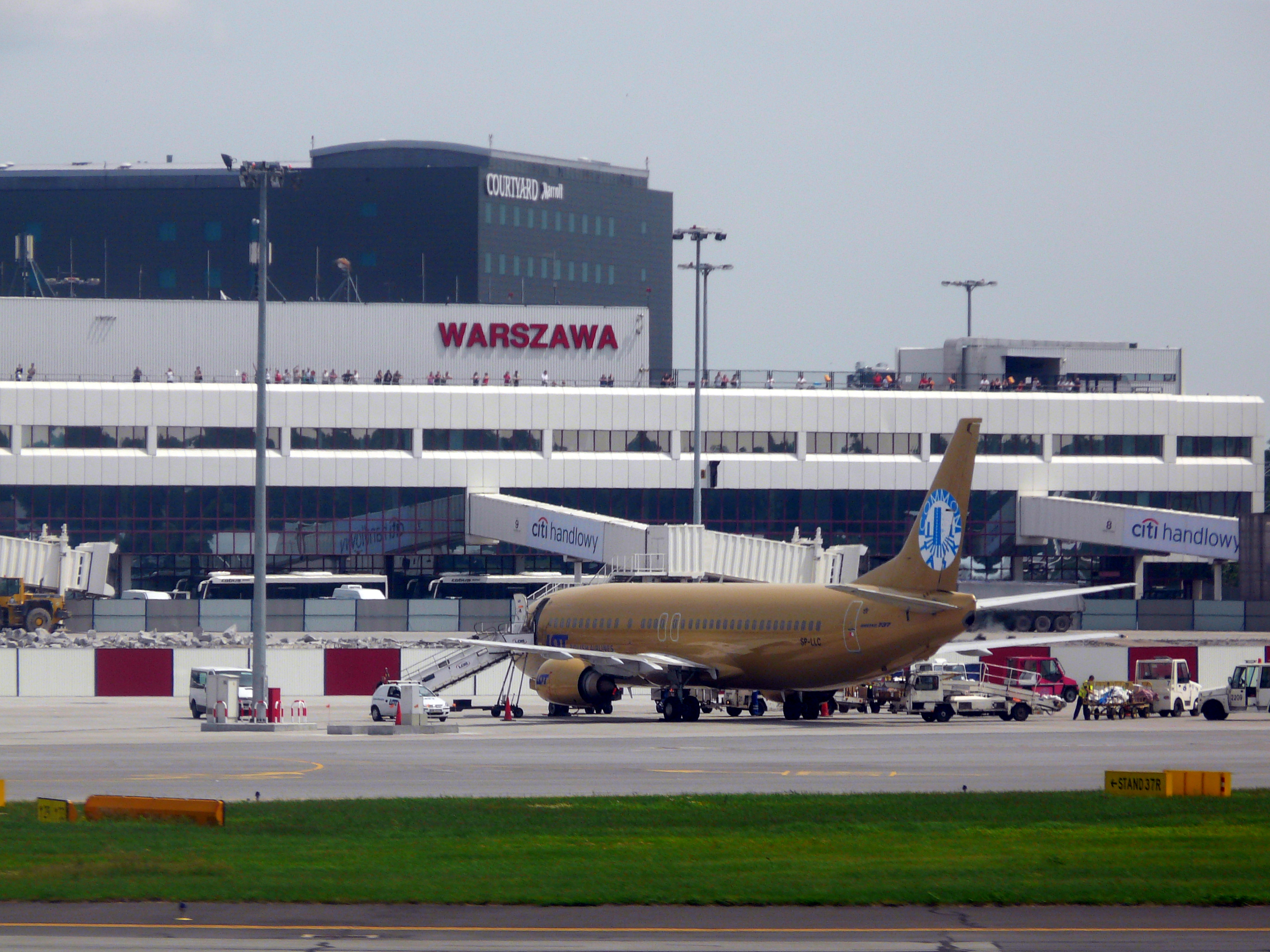 The Boeing 737-400 of LOT registered SP-LLC with special livery celebrating 20 years of free election in Poland.